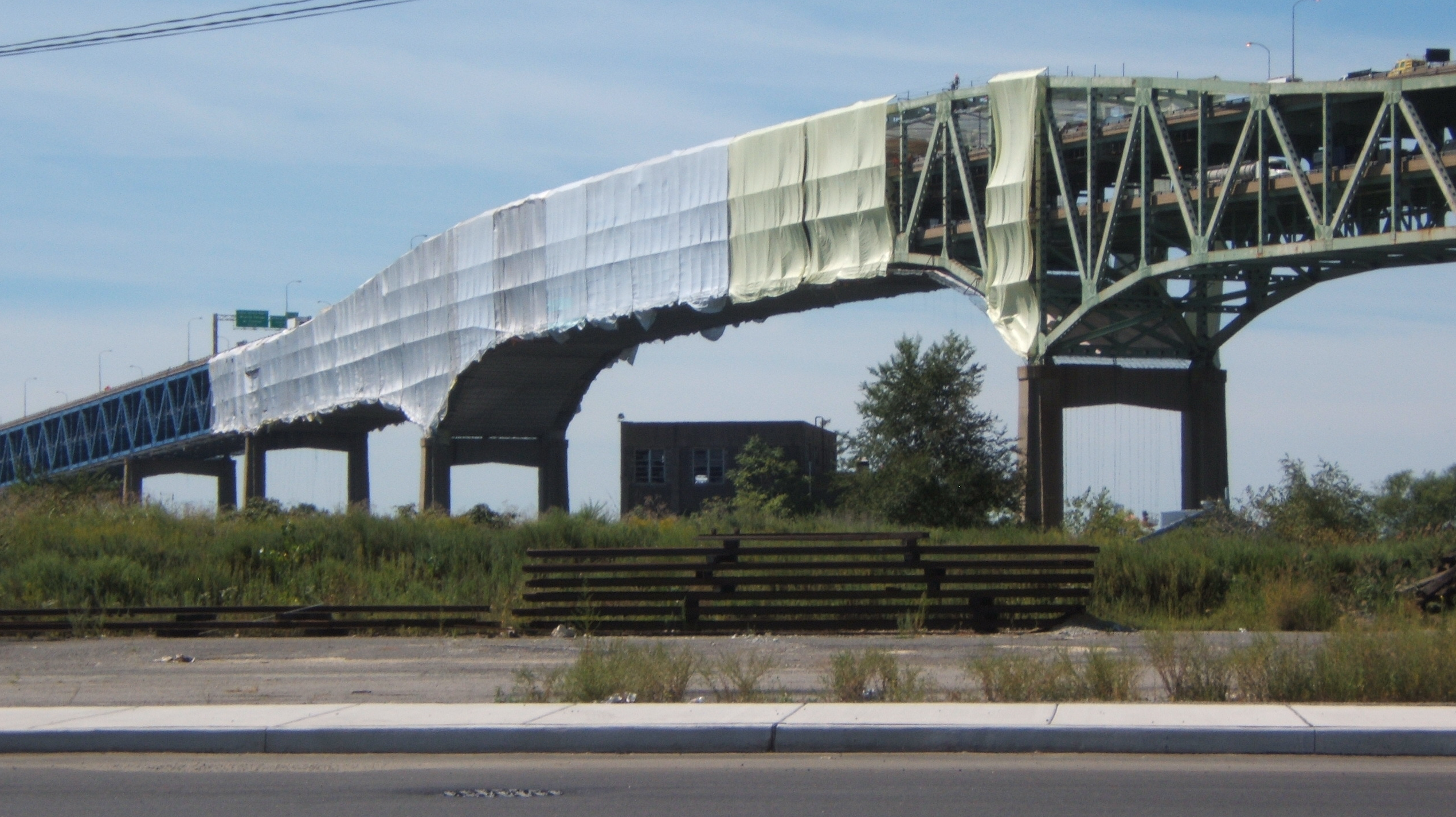 The Girard Point Bridge is a double-decked cantilever bridge carrying Interstate 95 across the Schuylkill River in Philadelphia, Pennsylvania, The Pennsylvania Department of Transportation undertook the erection of the bridge in Southwest Philadelphia and selected American Bridge Company as the prime contractor. It opened in 1985. Looking south from the former Navy Yard.